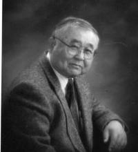 Photo of Dr. Jack Fujimoto